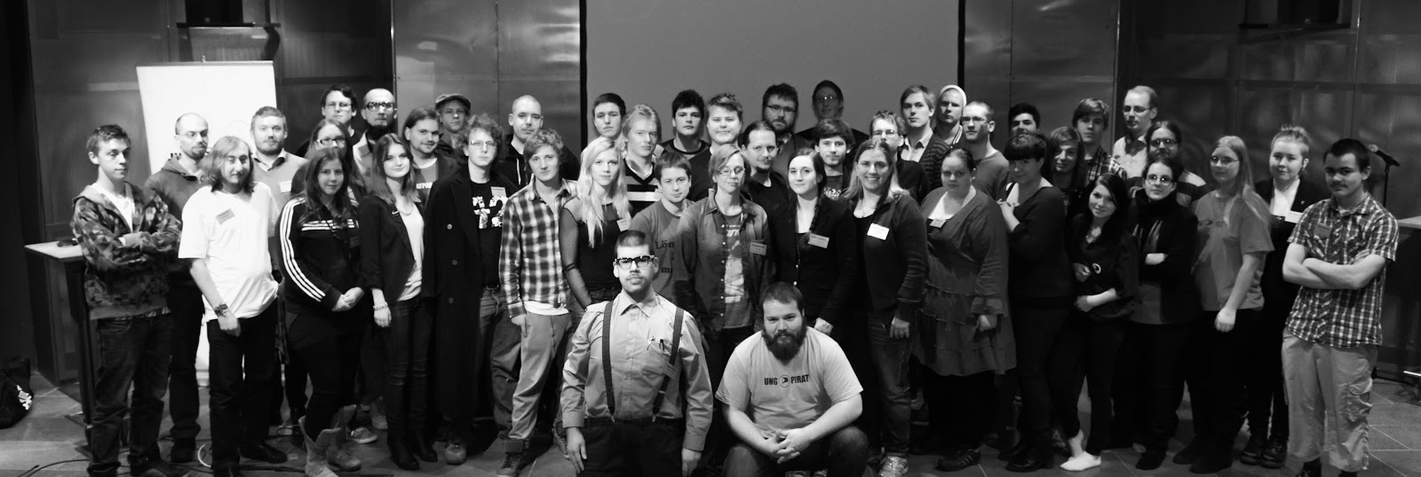 Group photo with participants at Young Pirates Sweden's political conference in Norrköping, November 2012.